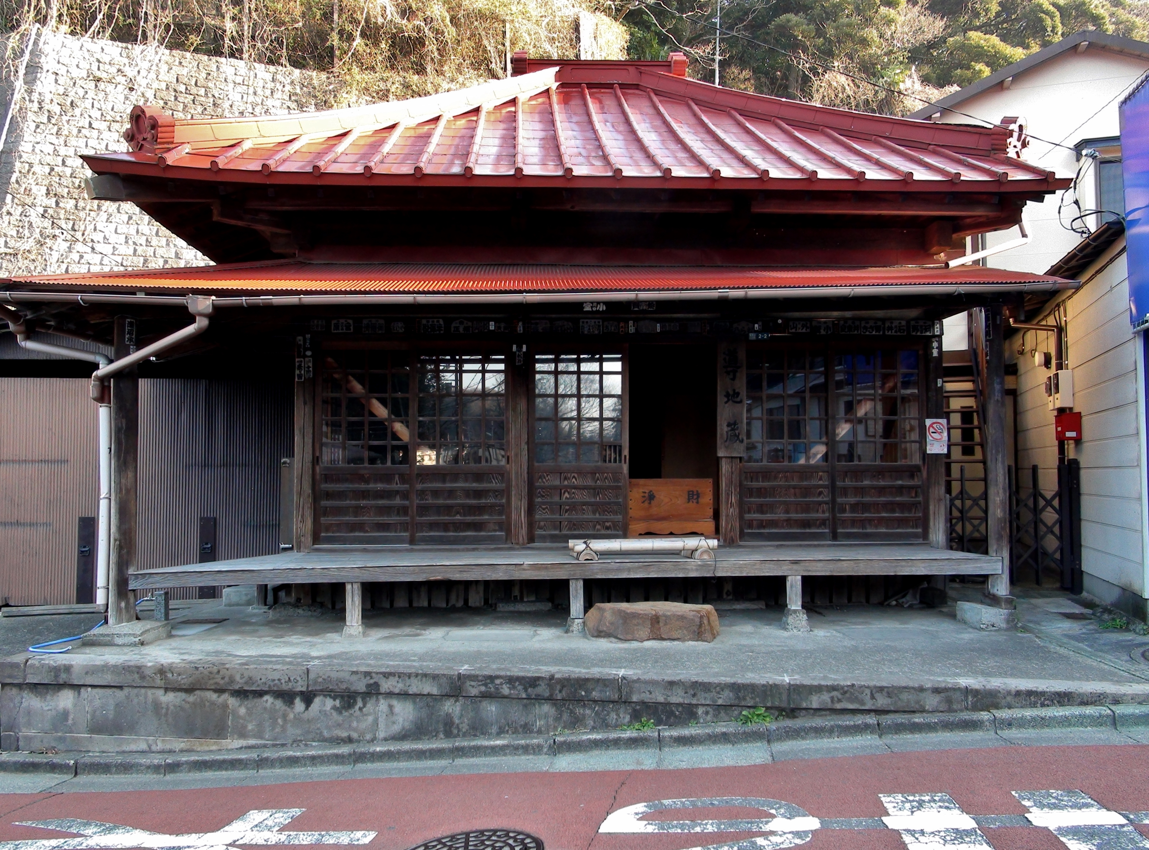 Located in Kamakura, Michibiki Jizodo (Buddhist temple)